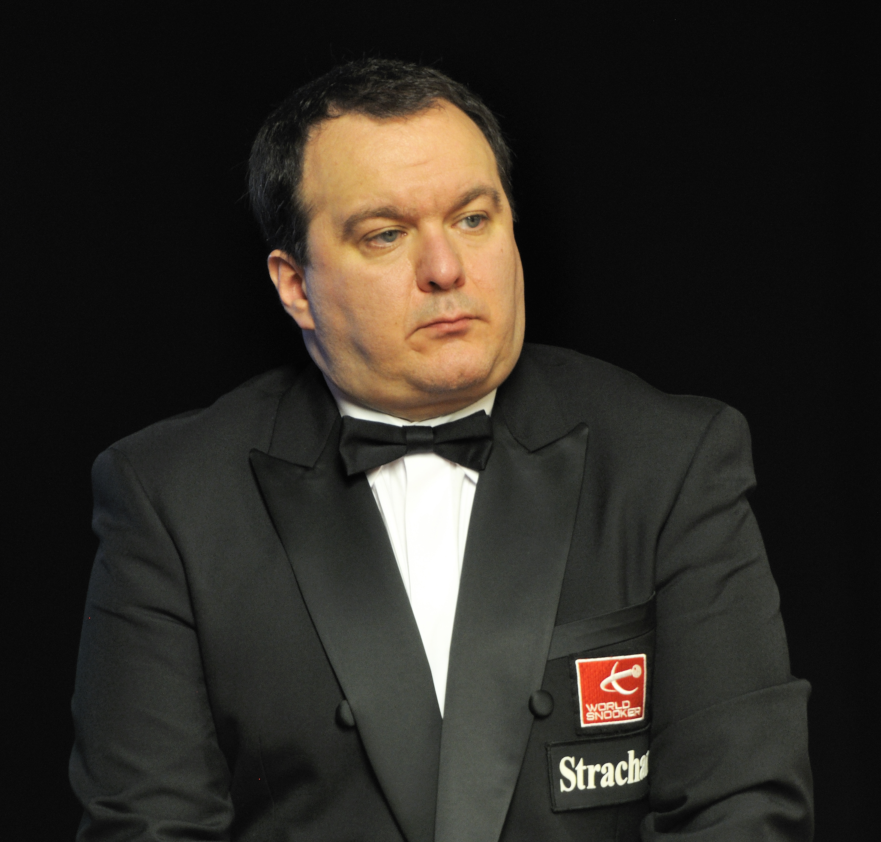 Picture taken in Berlin during the Snooker German Masters in 2014. Greg Coniglio.